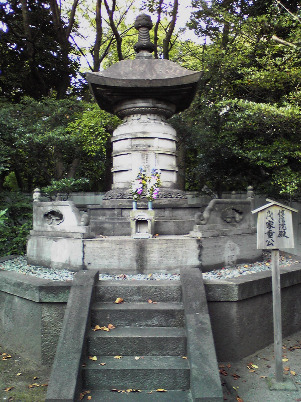 Photo of the grave of Shogun Tokugawa Ieshige (徳川家重) in Zōjōji, a temple in Shiba, Tokyo.